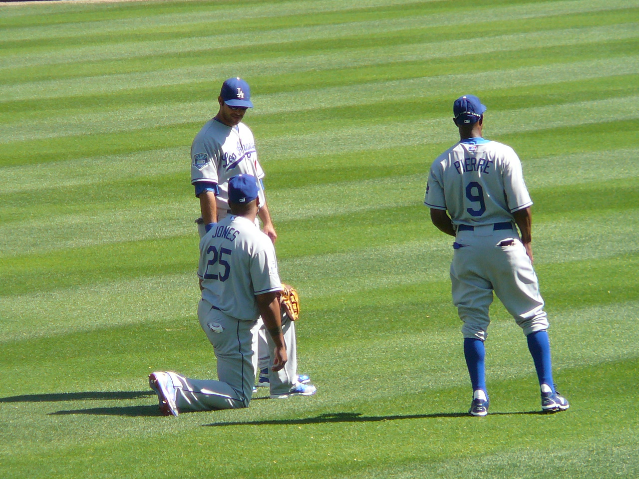 User:Chrisjnelson agreed to license this image of en:.jpg under a free attribution license. Any use of this image must be attributed; this means that Photo by :en:User:Chrisjnelson|Chris Nelson should be in the picture caption. 00:08, 21 April 2008 . . Chrisjnelson . . 1,280×960 (520 KB)